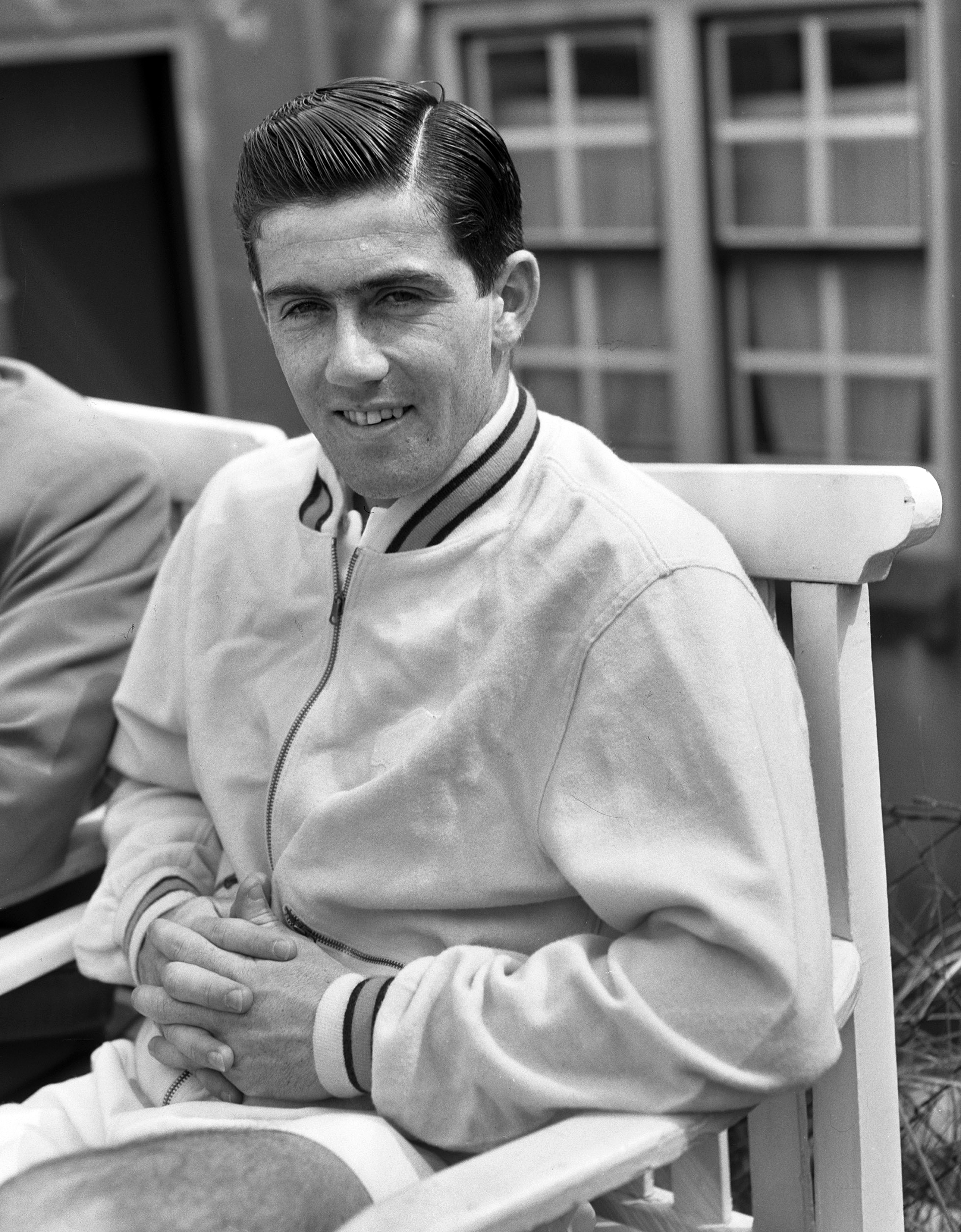 Tennis player Ken Rosewall at an exhibition in Noordwijk, Netherlands.